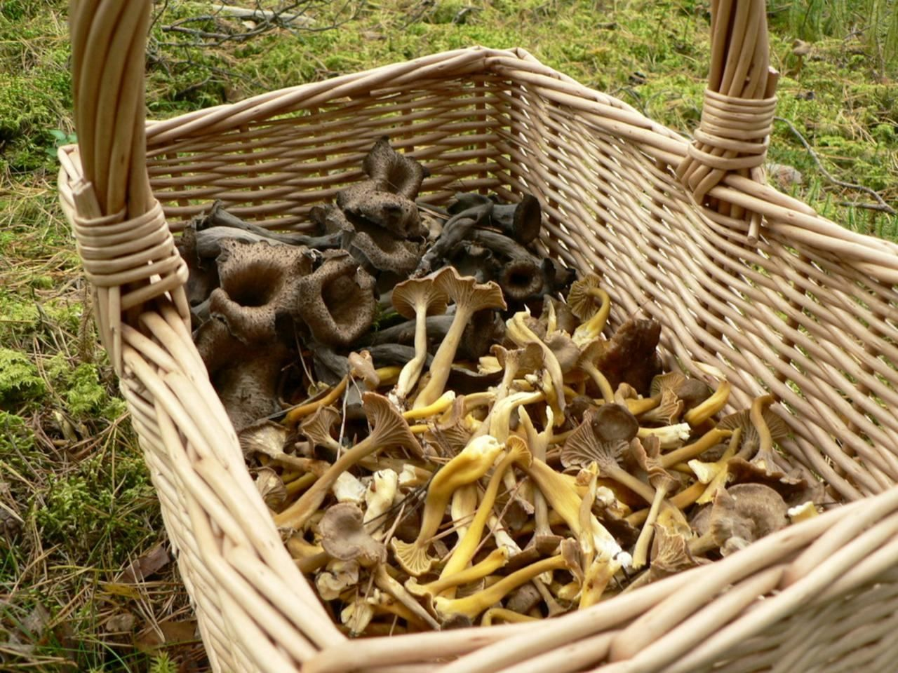 Image title: Mushroom basket Image from Public domain images website